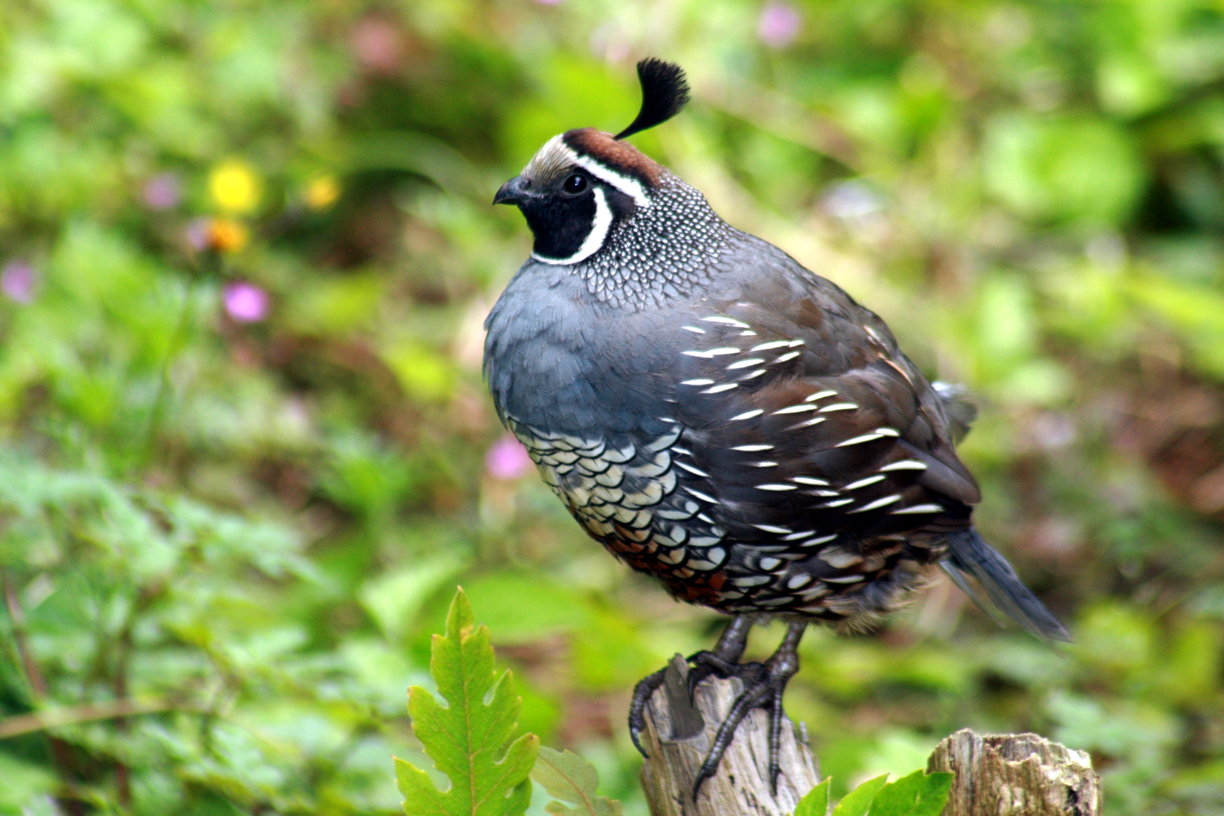 Male California Quail Callipepla californica, Golden Gate Park, San Francisco, California